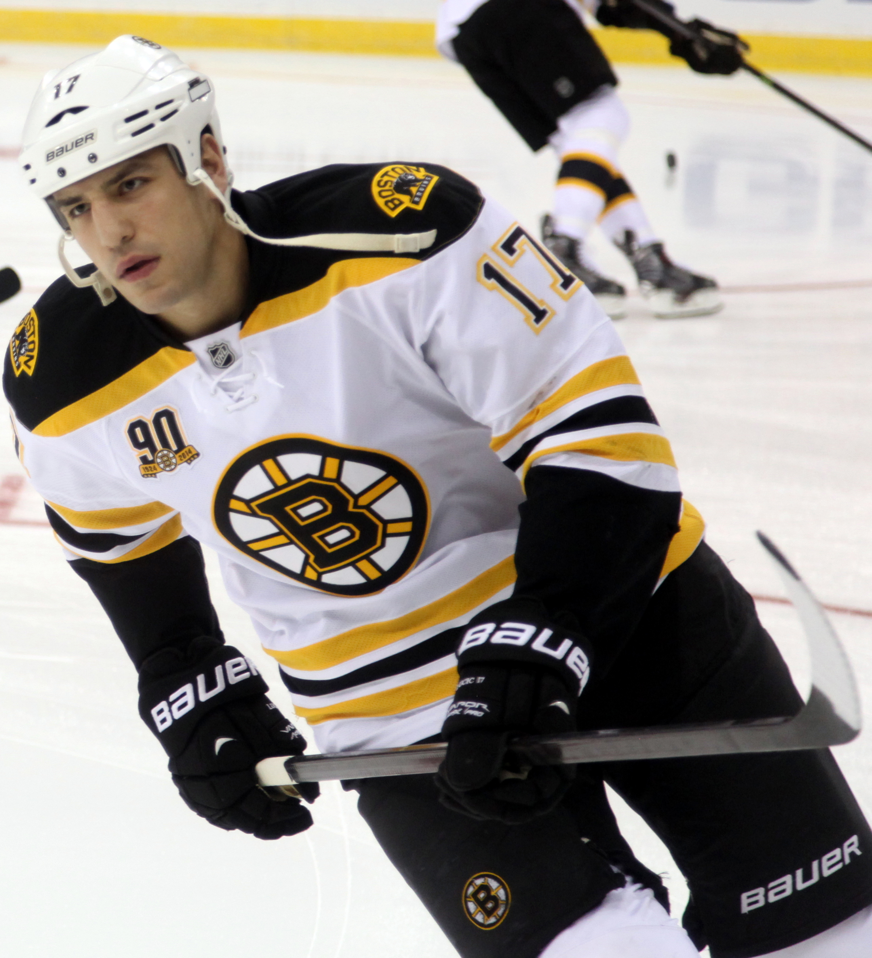 Milan Lucic in 2014.